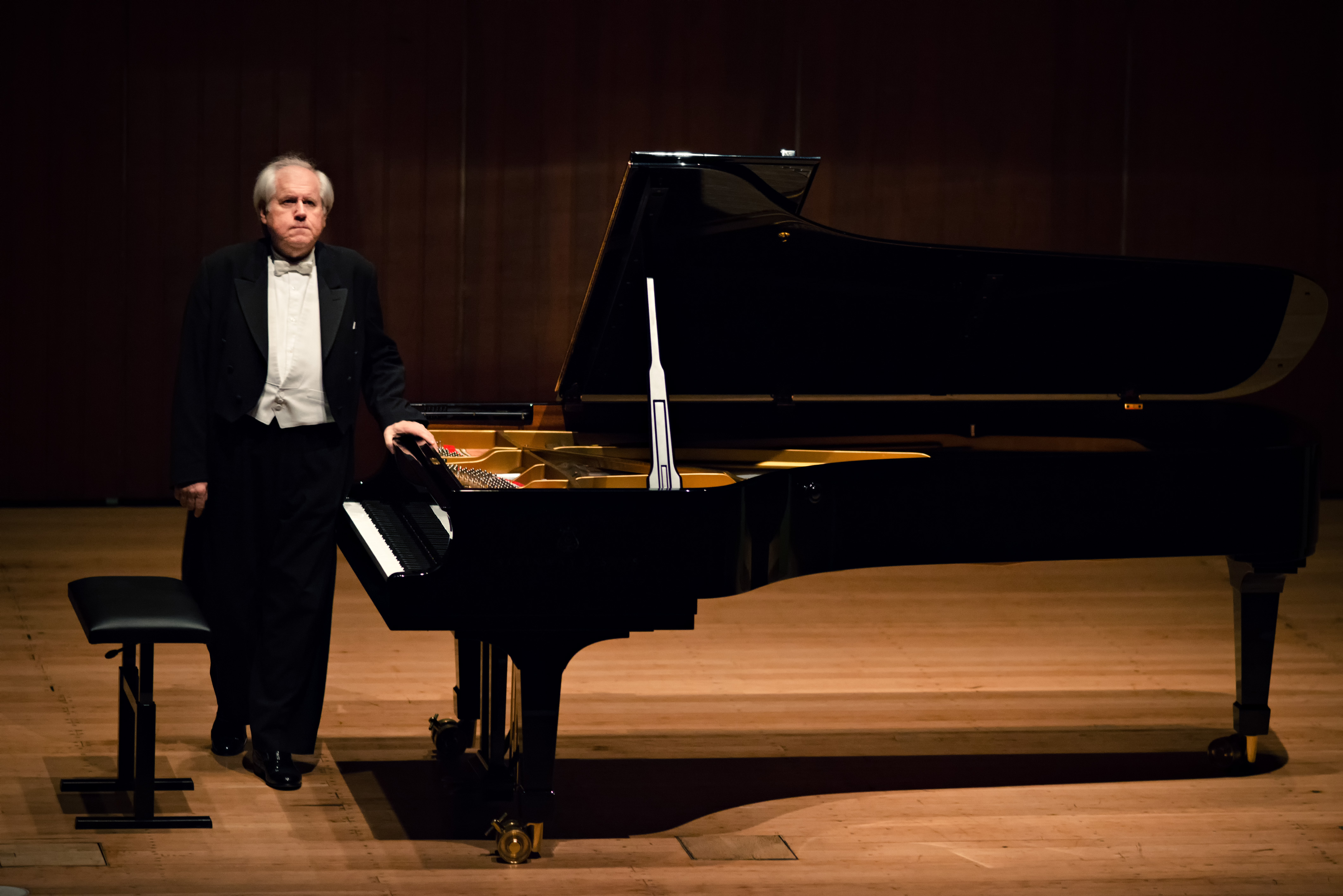 Grigory Sokolov, during the “Heidelberger Frühling” concert in Kongresshaus Stadthalle Heidelberg, 22 April 2015.